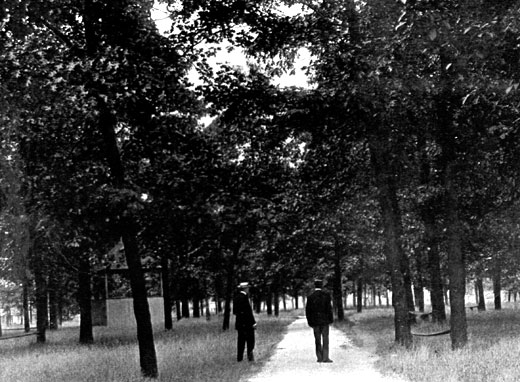 First known photo in 1910 of Bowling Green Normal School (now Bowling Green State University) before buildings were erected